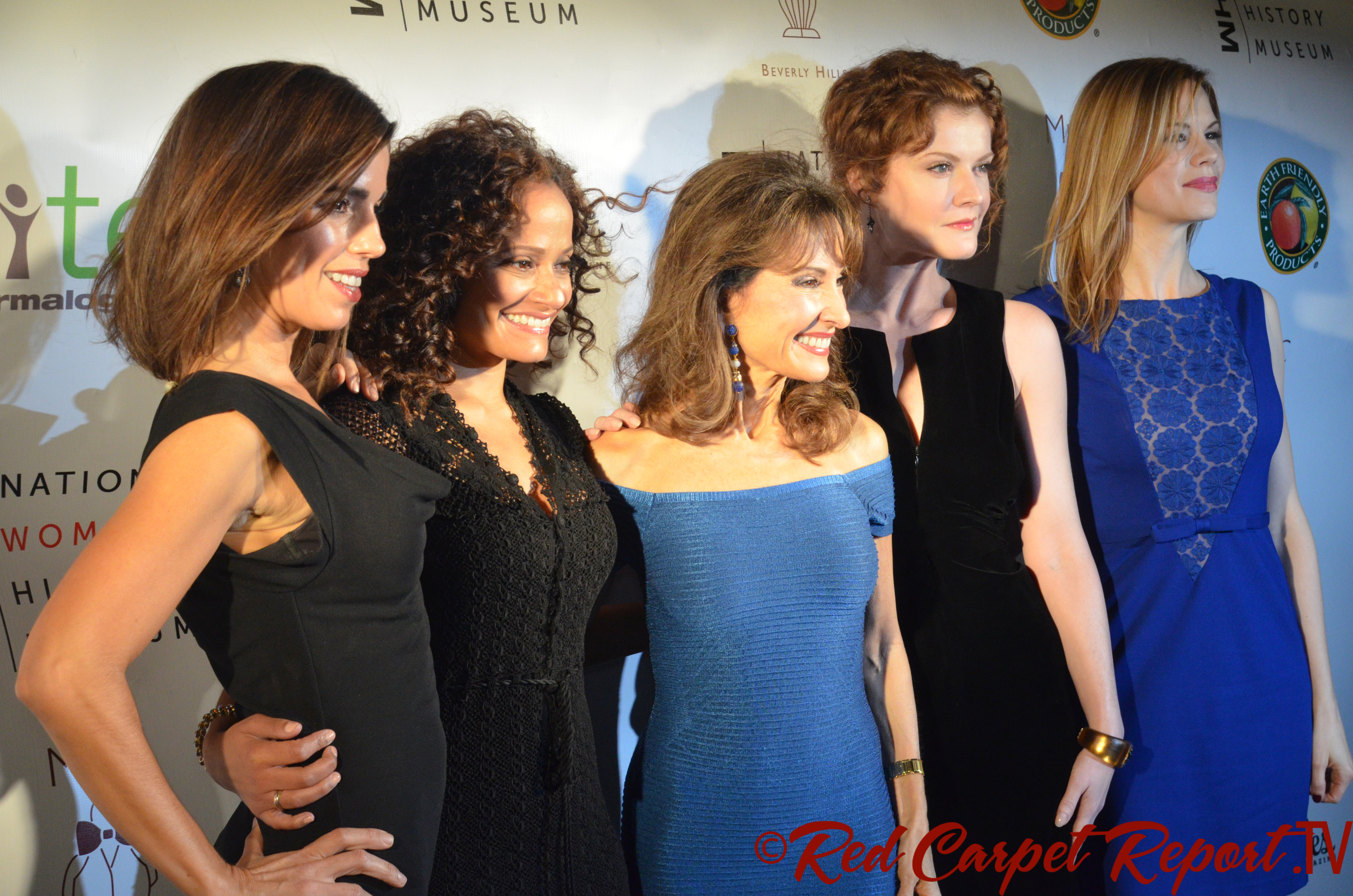 Devious Maids cast by Mingle Media TV